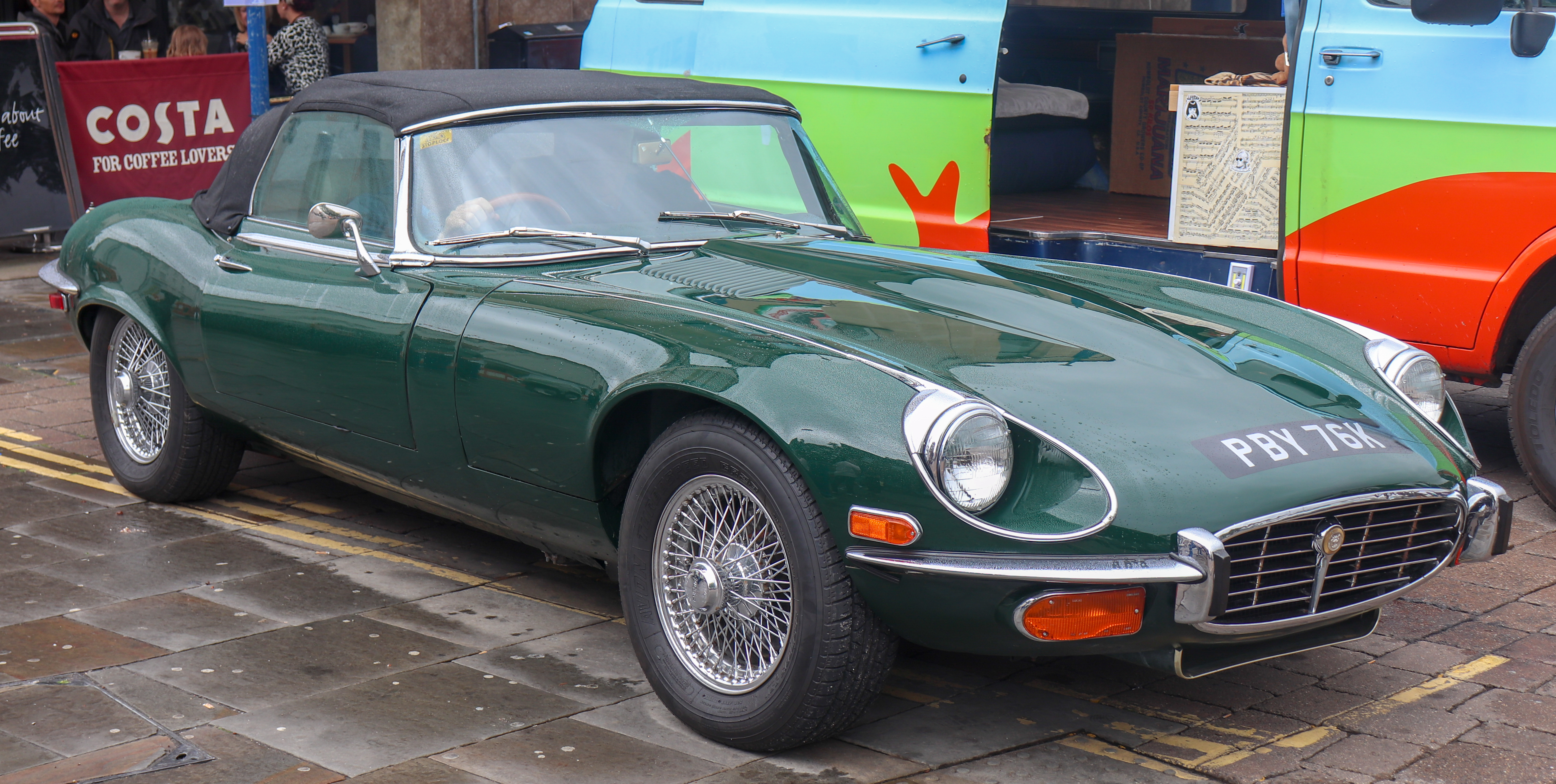 1972 Jaguar E-Type Series 3 5.3 Front Taken at the 2018 Warwick Classic Car Show